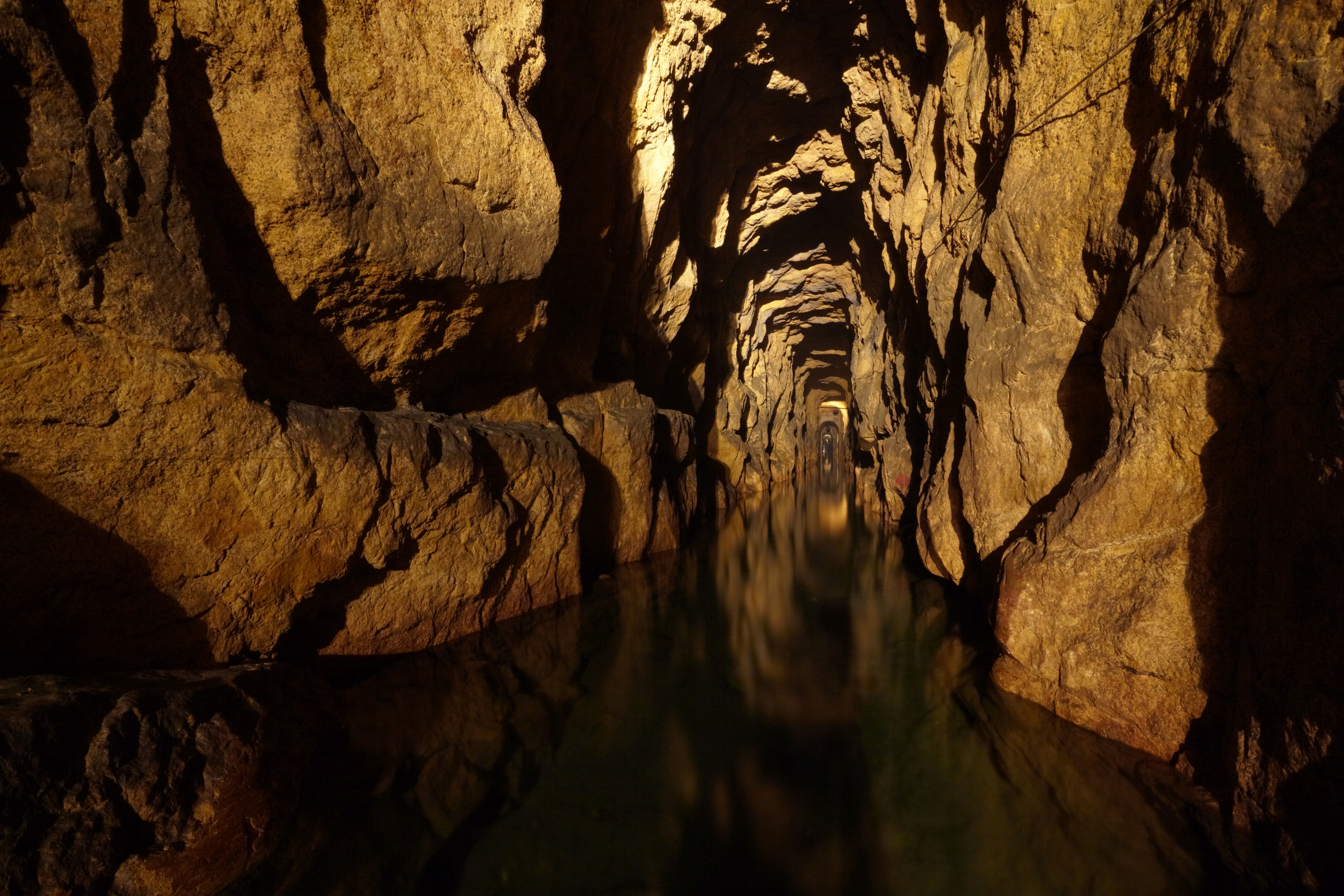 Fotografia wykonana w zabytkowej Sztolni Czarnego Pstrąga w Tarnowskich Gorach